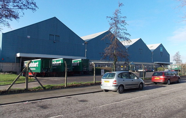 Hasbro Distribution Centre, Newport